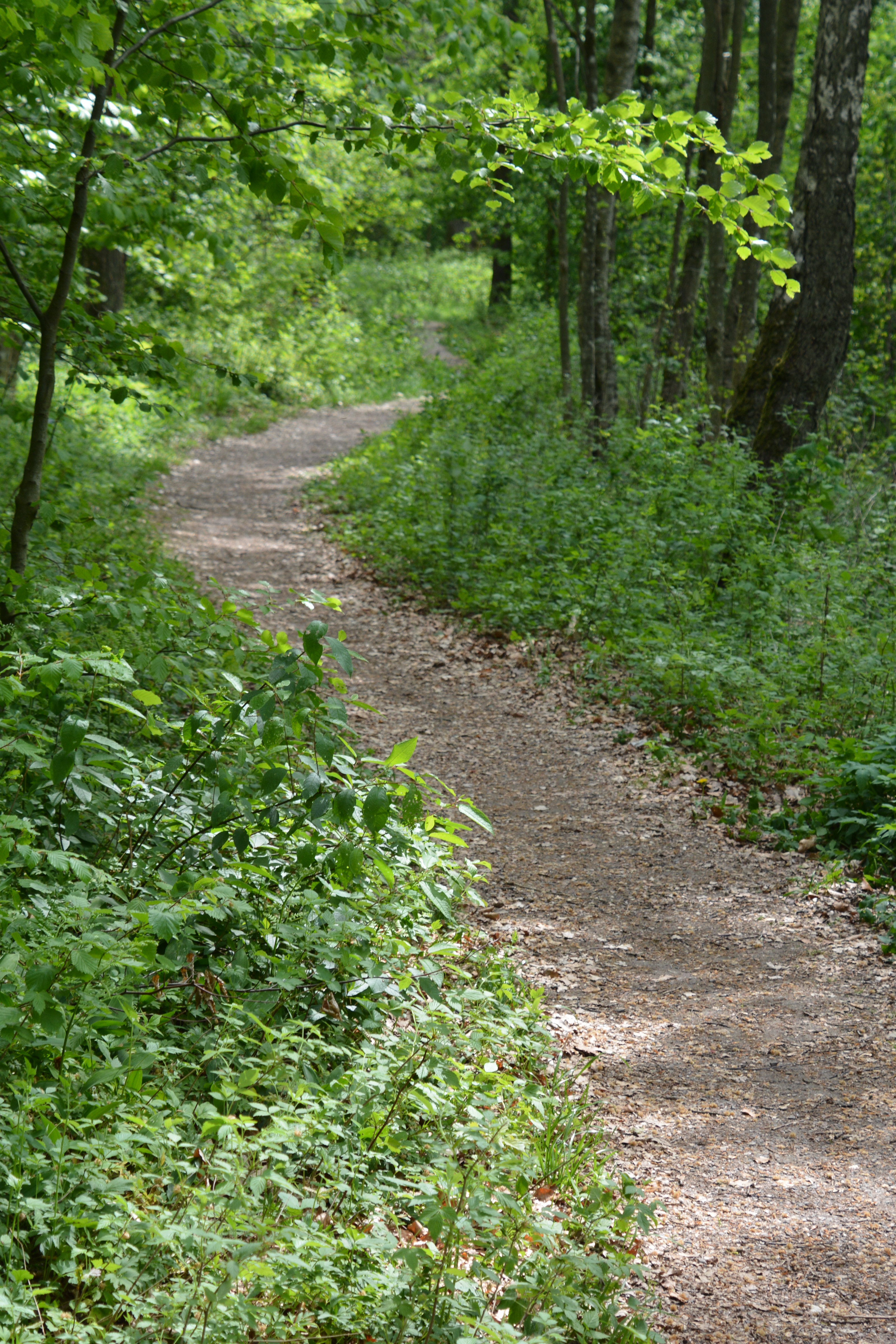 Brottets bana, Stenskogen, Höör